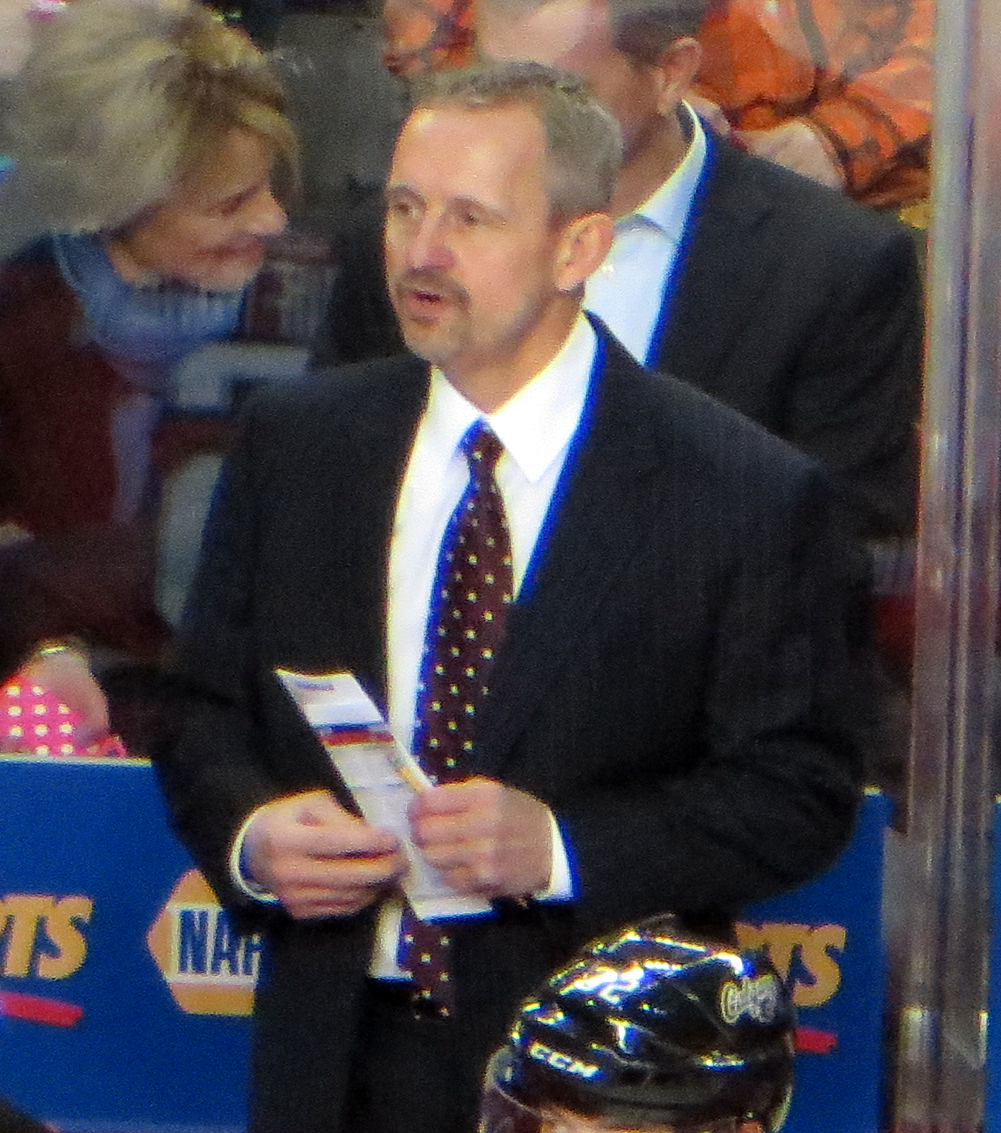 Calgary Flames associate coach, and former NHL goaltender, Jacques Cloutier during a National Hockey League game.